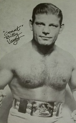 Billy Varga in the 1960's